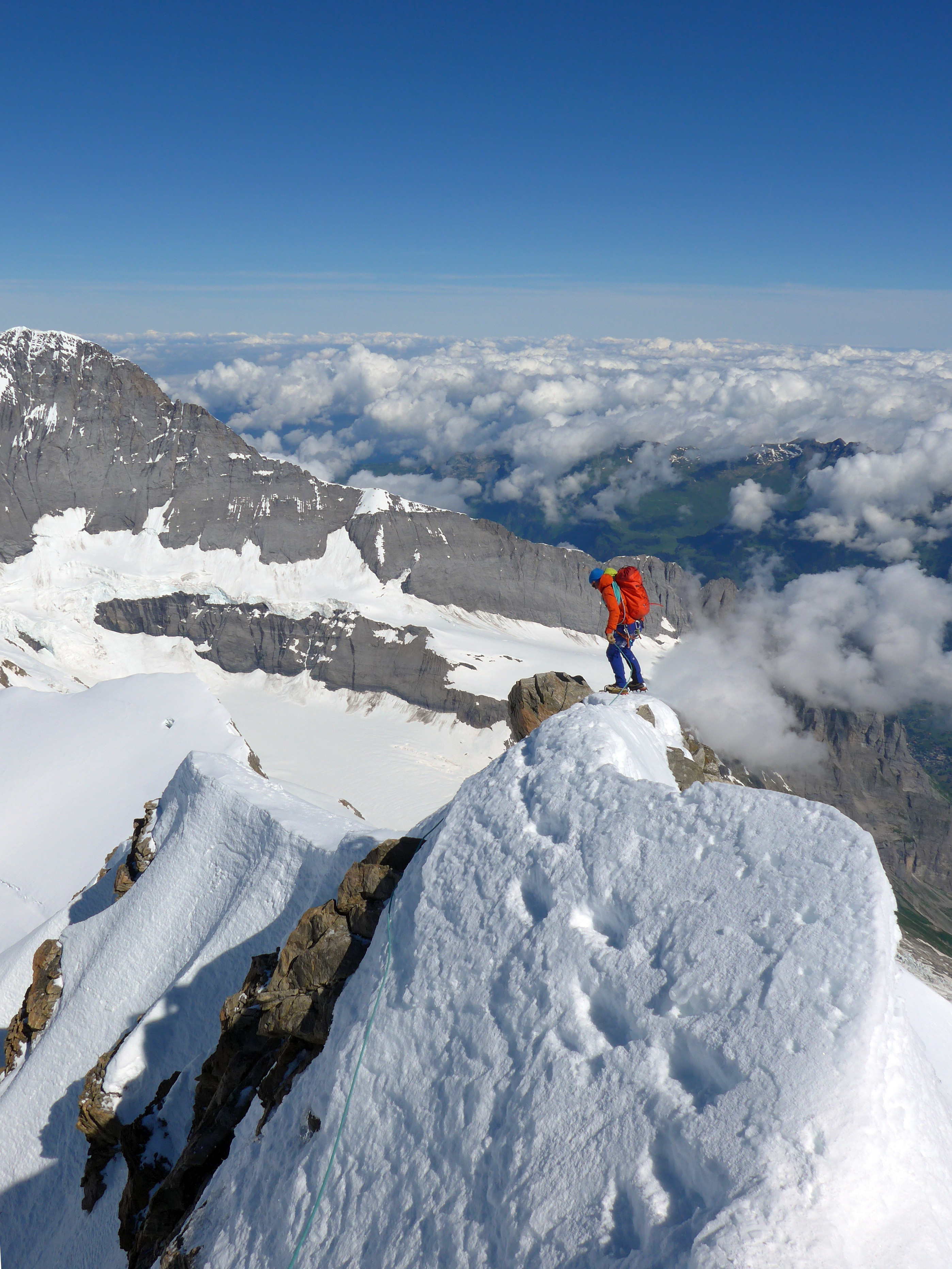 Descending on northwest ride of Gross Fiescherhorn